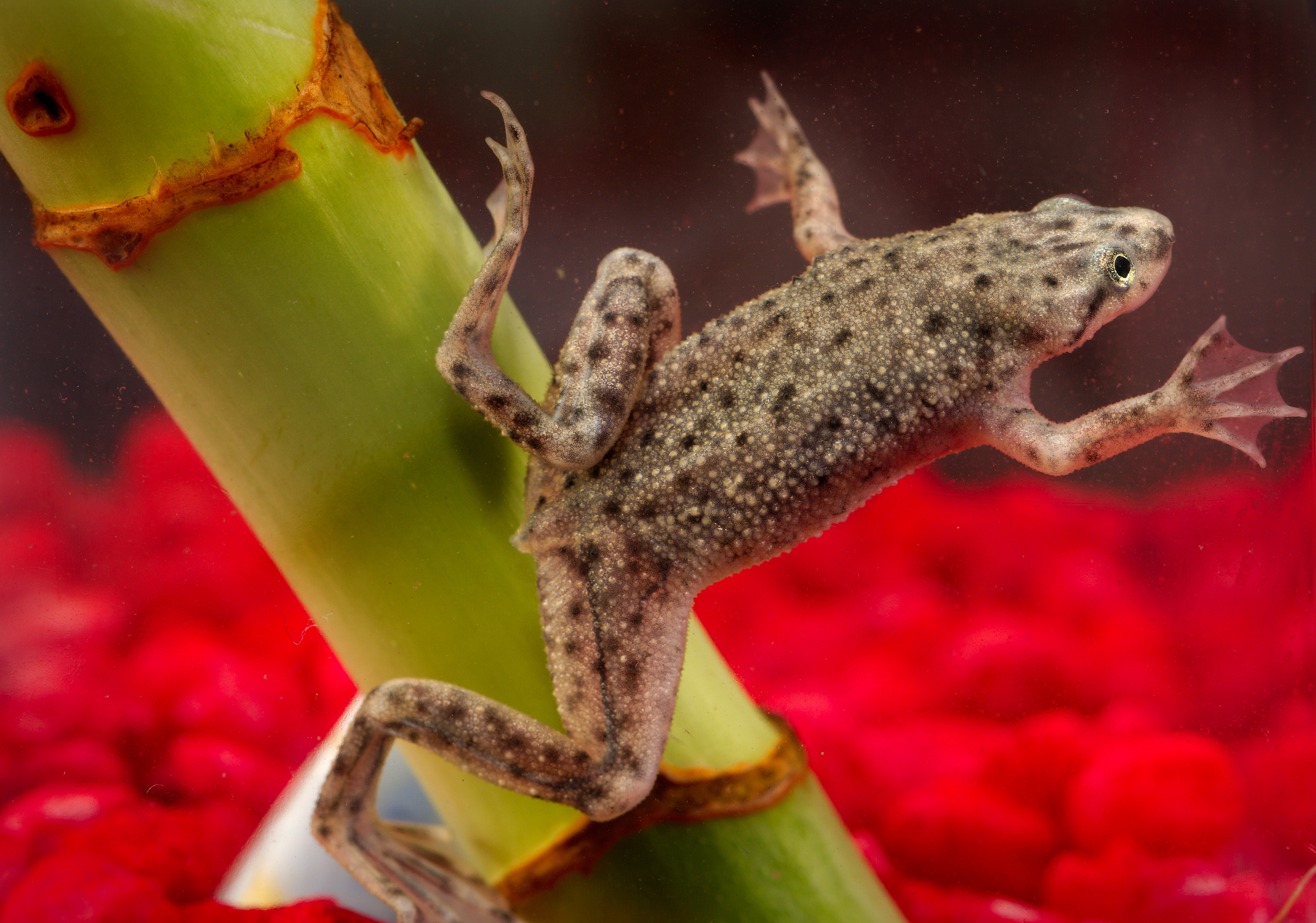 This photograph depicts an African dwarf frog, Hymenochirus boettgeri. CDC is collaborating with public health officials in many states to investigate a multistate outbreak of human Salmonella, serotype typhimurium infections, due to contact with water frogs including African dwarf frogs. Water frogs commonly live in aquariums or fish tanks. Amphibians such as frogs and reptiles such as turtles, are recognized as a source of human Salmonella infections. In the course of routine assessment, a number of cases with the same strain have been identified over many months. Most persons infected with Salmonella develop diarrhea, fever, and abdominal cramps 12–72 hours after infection. Infection is usually diagnosed by culture of a stool sample. The illness usually lasts from 4 to 7 days. Although most people recover without treatment, severe infections may occur. Infants, elderly persons, and those with weakened immune systems are more likely than others to develop severe illness. When severe infection occurs, Salmonella may spread from the intestines to the bloodstream and then to other body sites and can cause death unless the person is treated promptly with antibiotics